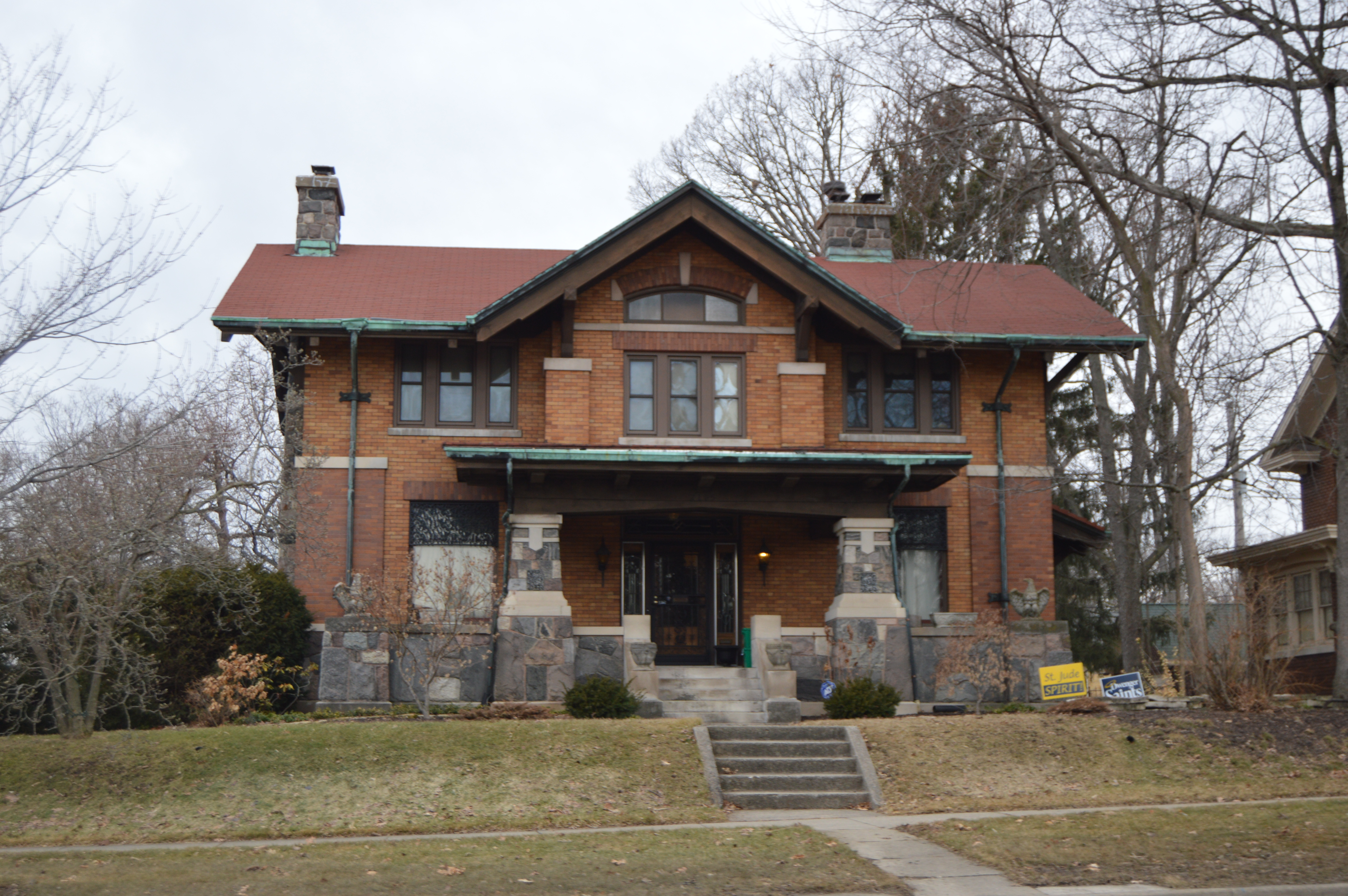 Front of the William C. and Clara Hagerman House, located at 2105 N. Anthony Boulevard in Fort Wayne, Indiana, United States. Built in 1923, it is listed on the National Register of Historic Places, and it is part of a Register-listed historic district, the North Anthony Boulevard Historic District.